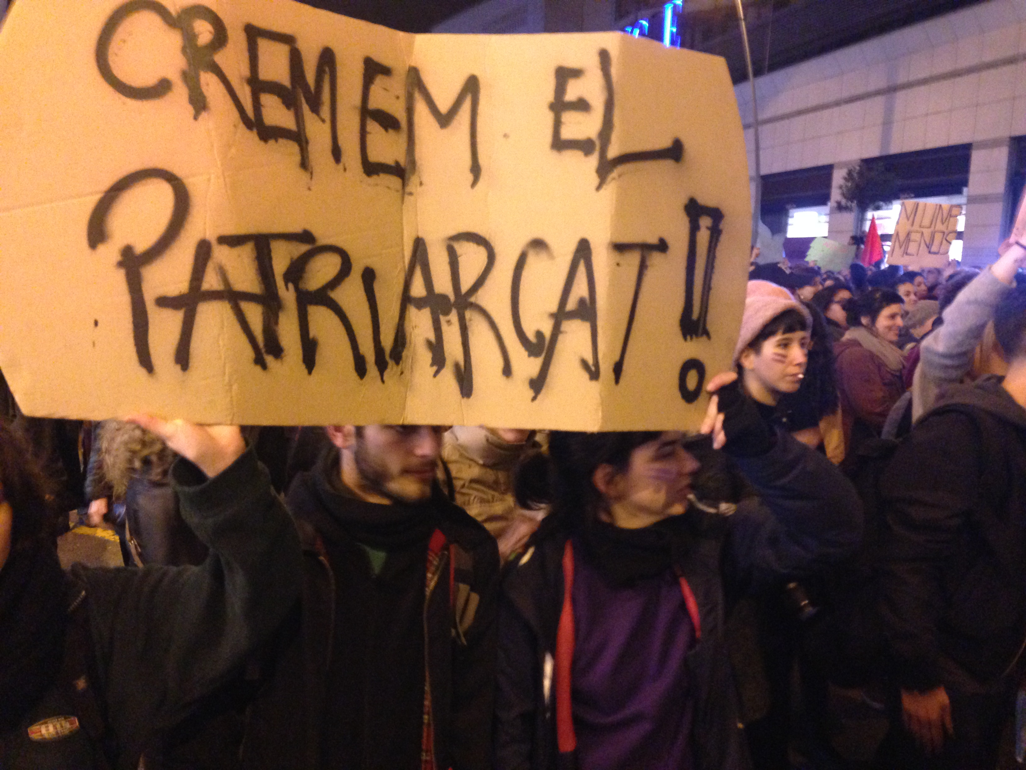 Protesters from the massive International Women's Day March in Barcelona, March 8, 2017. Thousands of people gathered to protest inequality and violence against women.